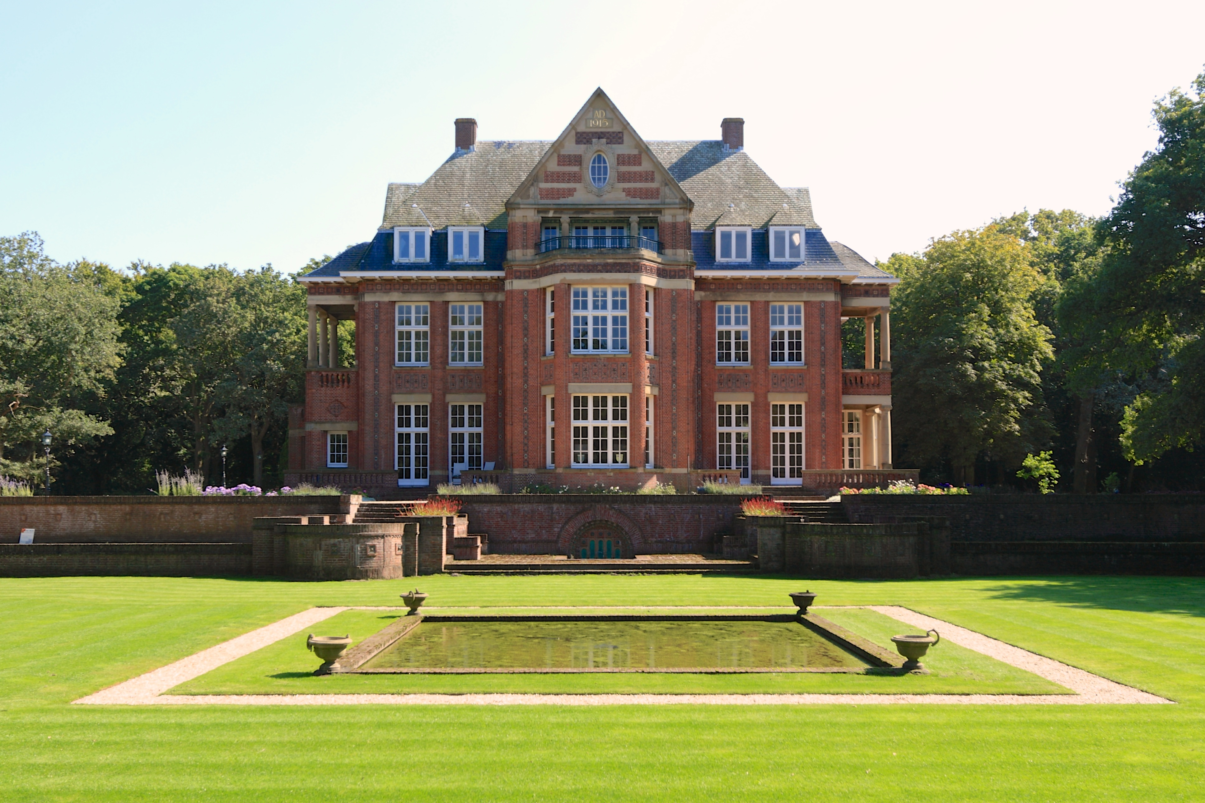 Villa Maarheeze. Former seat of the Dutch Foreign Intelligence Service